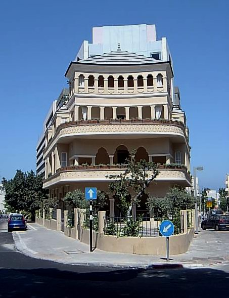 The Pagoda house, Tel Aviv